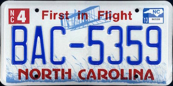 North Carolina License Plate